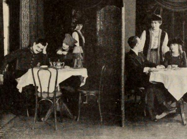 Still from the American drama film Fedora (1918), on page 33 of the August 17, 1918 Exhibitors Herald.